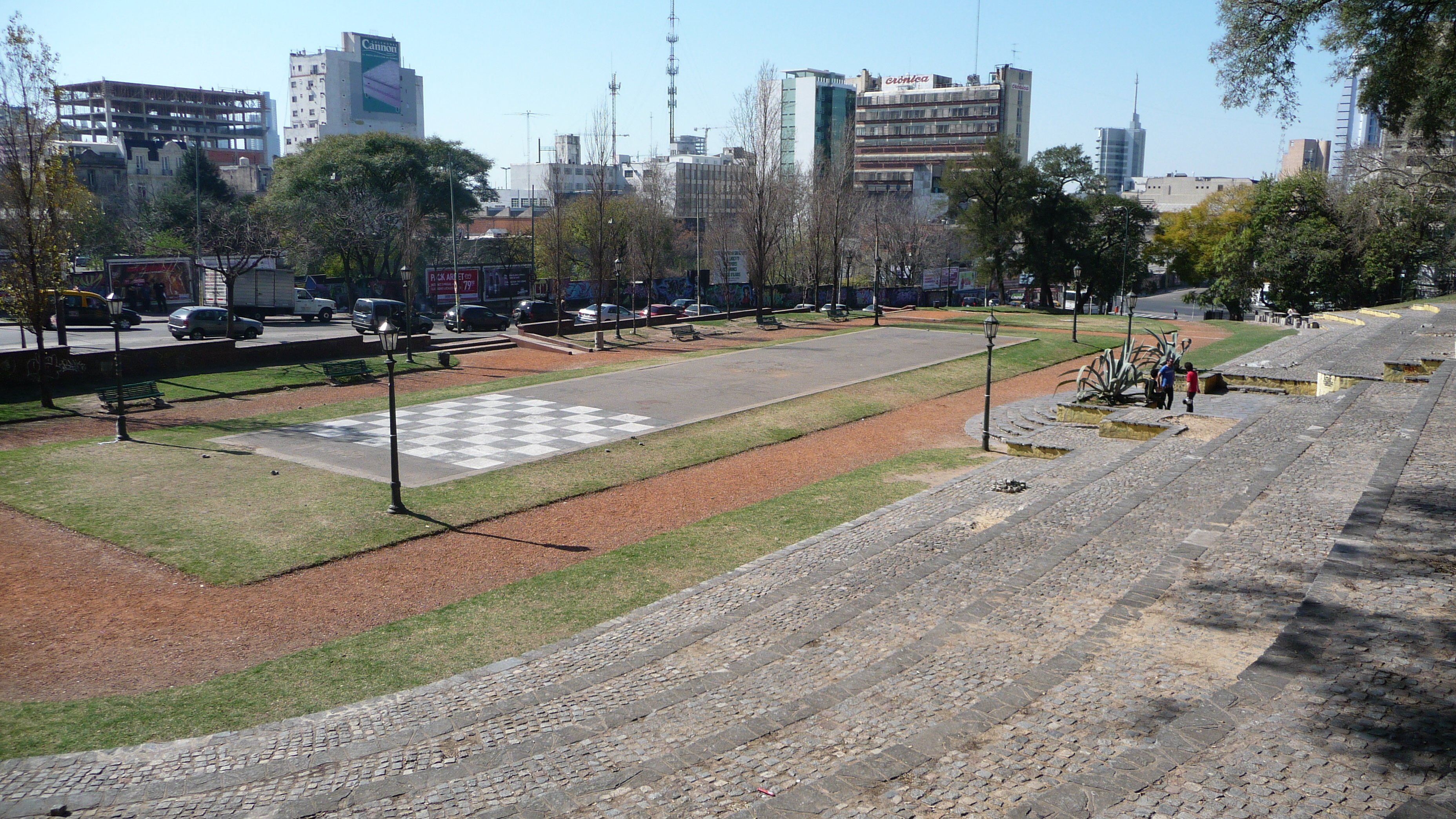 The Lezama Park amphitheater, Buenos Aires.